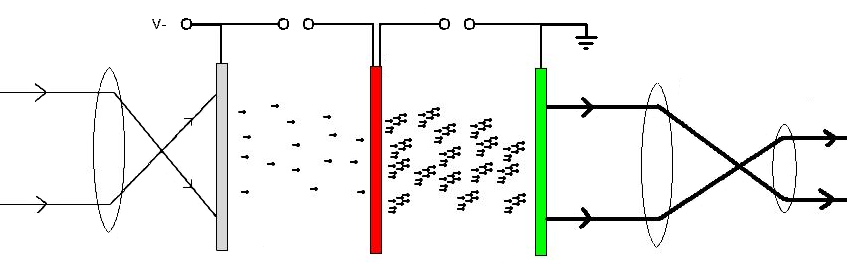 Functional diagram of an image intensifier. (See Image intensifier) This graphic was adapted from File:Photomultiplier.JPG. Text was removed from the graphic so it could be used in document written in any language.